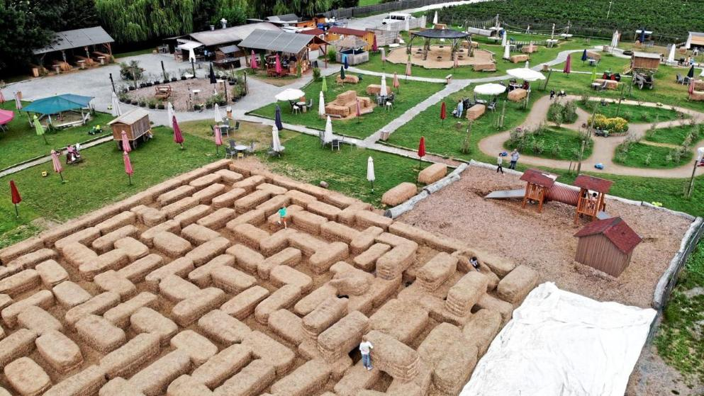 Beerencafé in München Lochhausen